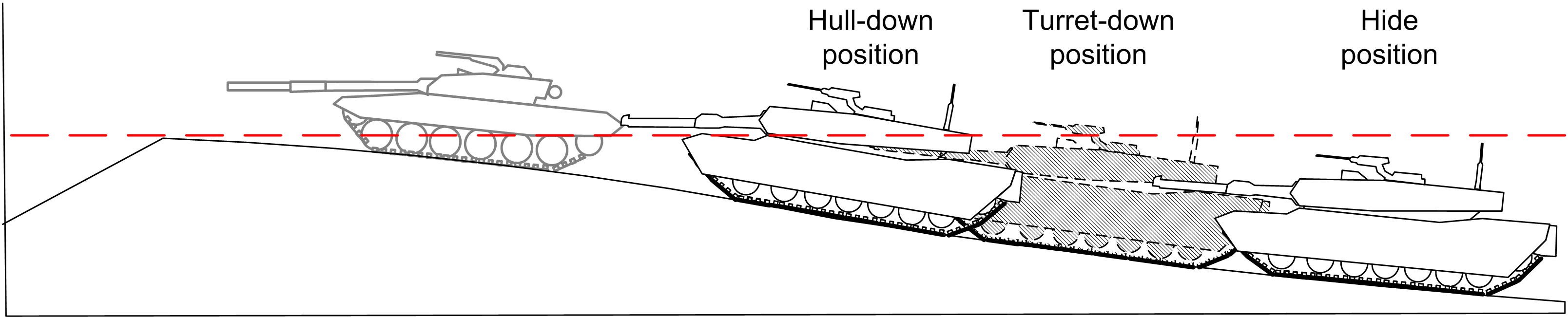 This diagram shows the Hide, Turret-down and Hull-down positions that a tank may adopt. The tank shown on the right is an M1 Abrams with a maximum gun depression of about -10 degrees. The tank in grey further to the left is a T-72 which can only depress to -5 degrees, and is forced to adopt a more exposed position as a result.